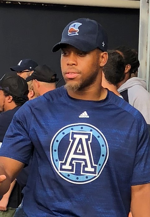 Nakas Onyeka, Linebacker for the Toronto Argonauts.